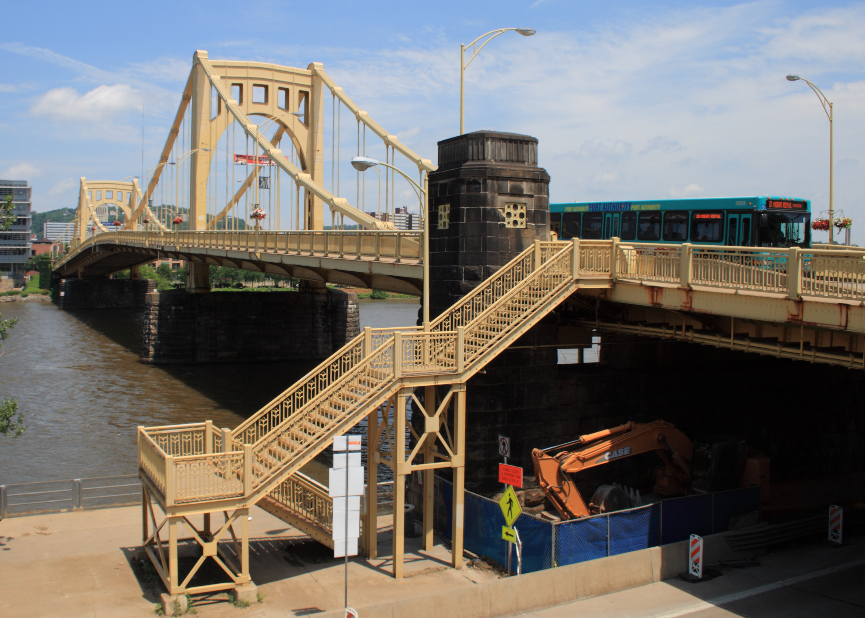 The Rachel Carson Bridge across the Allegheny River, viewed from Fort Duquesne Blvd. looking north